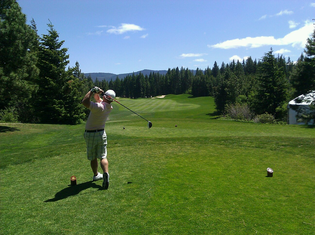 A golfer taking a tee shot to begin a round of golf.